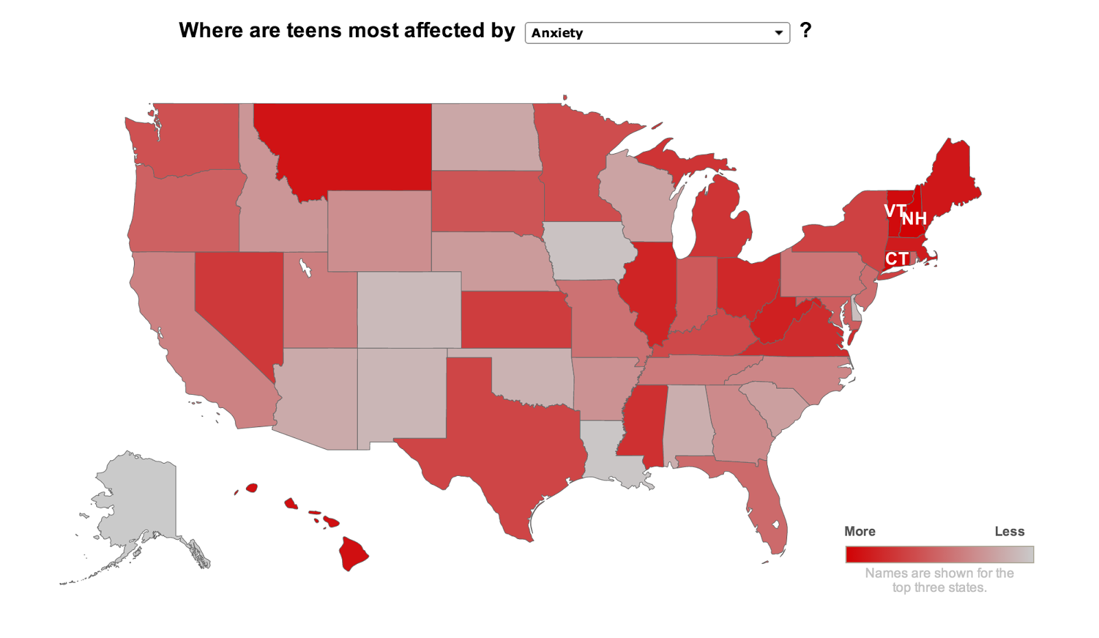 A map depicting frequency of text messages indicating anxiety, as seen on in August 2014.